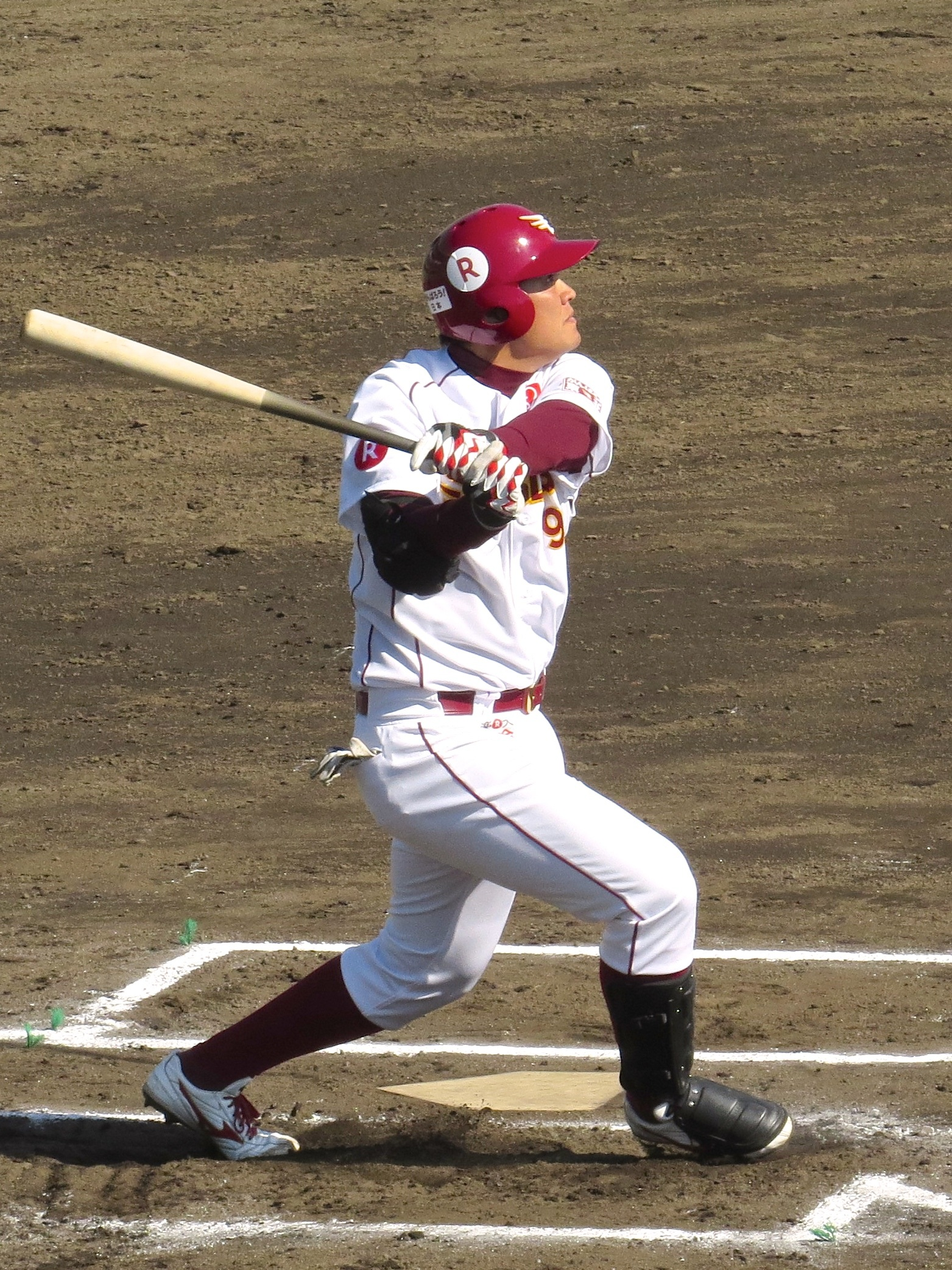 Hiroshi Katayama, infielder of the Tohoku Rakuten Golden Eagles, at Saitama Municipal Urawa Baseball Stadium.